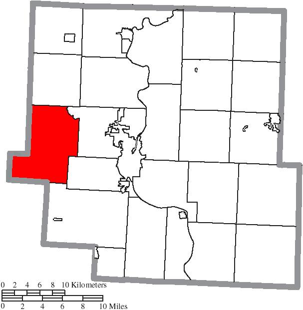 Map of the municipal and township boundaries of Muskingum County, Ohio, United States, as of the 2000 census, with the location of Hopewell Township highlighted. Township borders are shown only in unincorporated areas in order to differentiate incorporated and unincorporated areas more clearly.